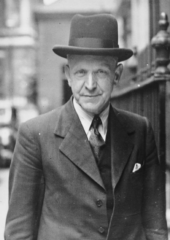 British Political Personalities 1936-1945 The Attlee Administration 1945 -1951: Wilfred Paling, the Minister for Pensions, on his way to the first Cabinet meeting of the new Labour Government.